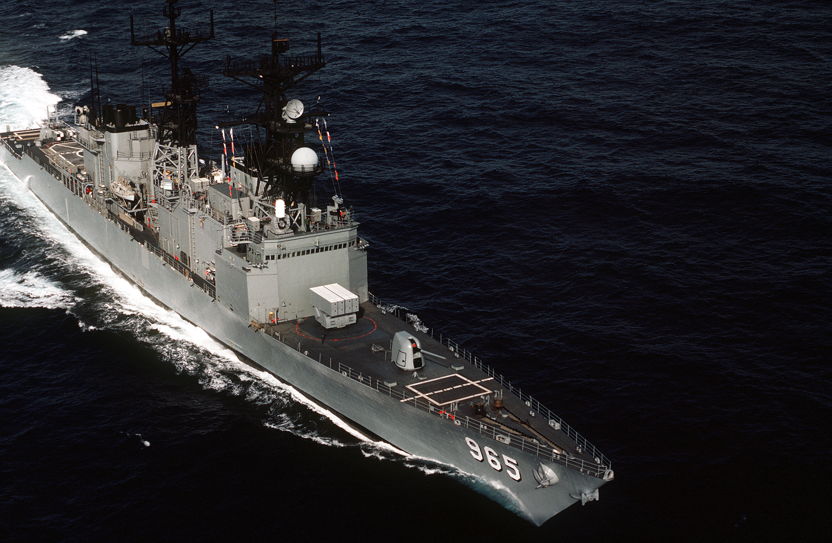 A starboard bow view of the Spruance class destroyer USS KINKAID (DD-965) underway off the coast of California.